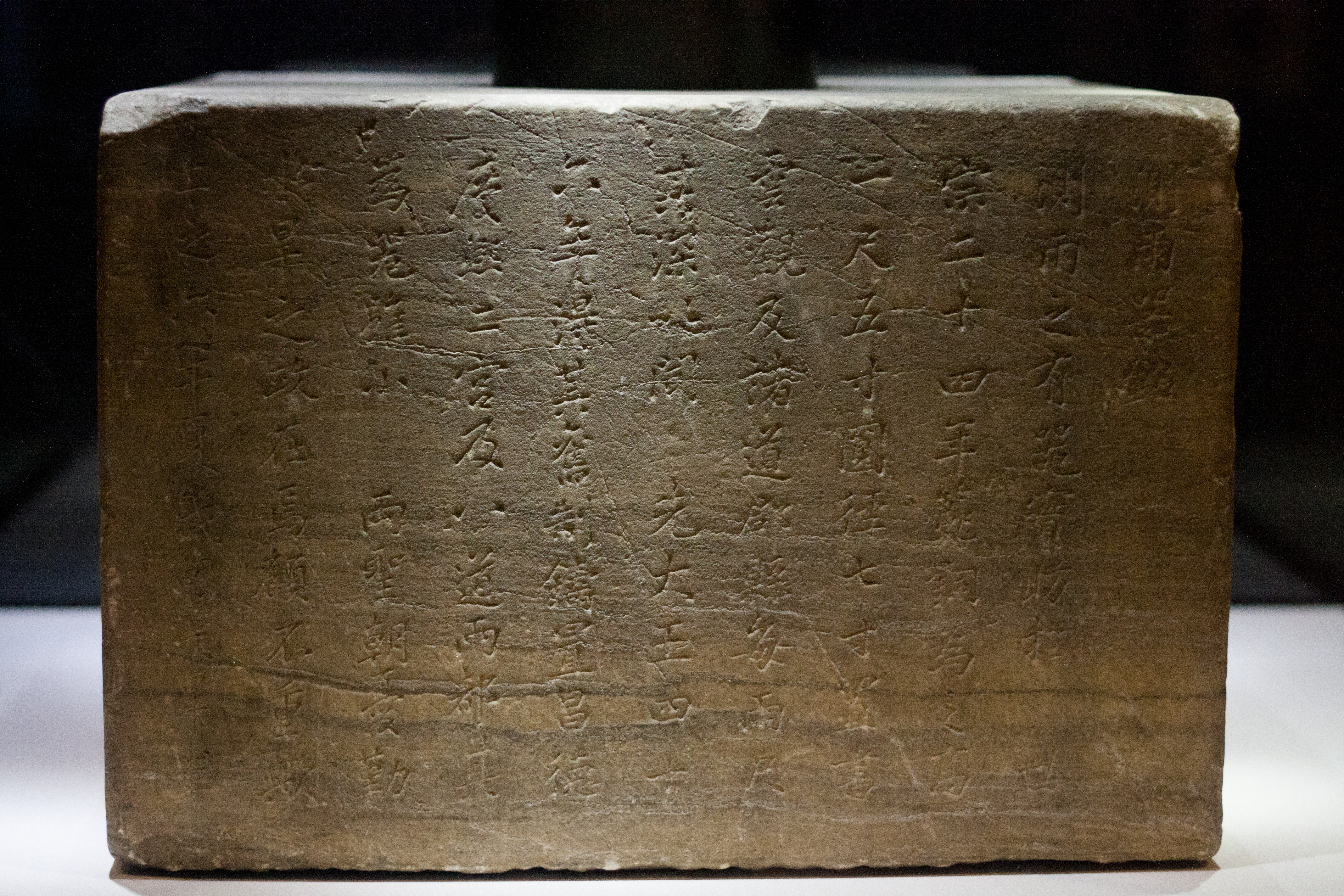 Rain Gauge Pedestal from Changdeokgung at National Palace Museum of Korea